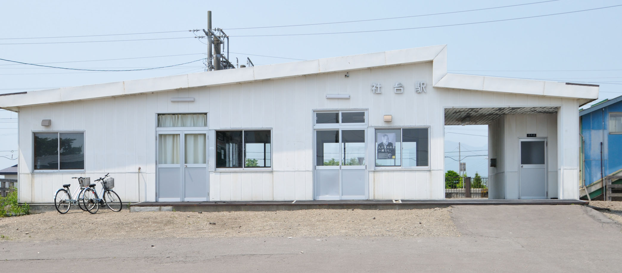 Shadai station, Shiraoi, Hokkaido, Japan